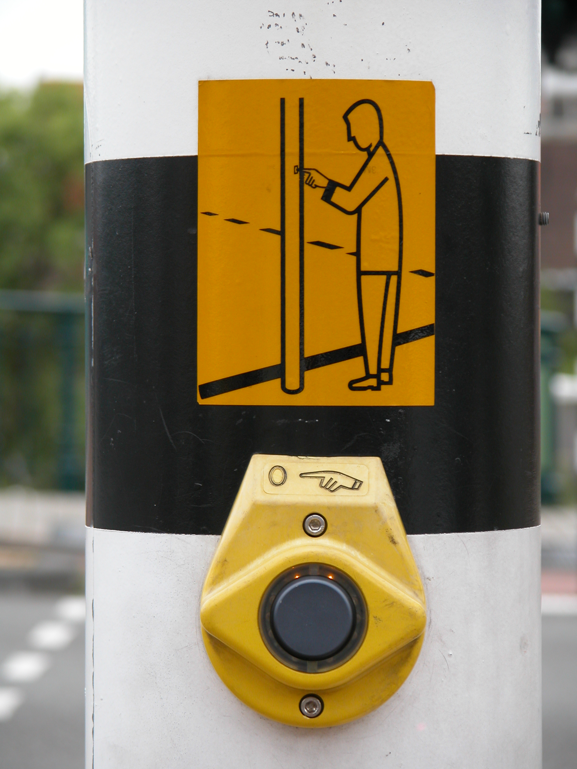 Trafficlight Voetgangers stoplicht